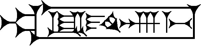 Neo-Assyrian ligature KAxGUR7 (𒅬); the KA sign (𒅗) was a Sumerian compound marker, and appears frequently in ligatures enclosing other signs. GUR7 is itself a ligature of SÍG.AḪ.ME.U, meaning "to pile up", grain-heap" (Akkadian kamāru; karû).